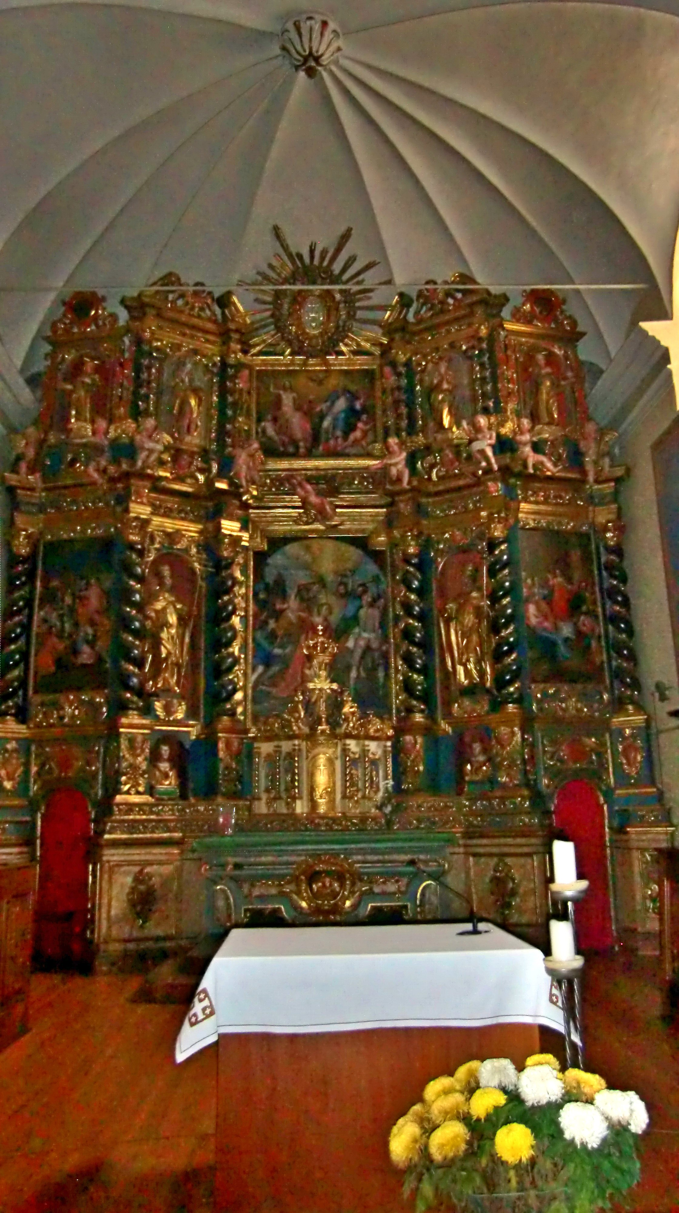 Church of Saint Stephen, main altar, 1670, Aosta